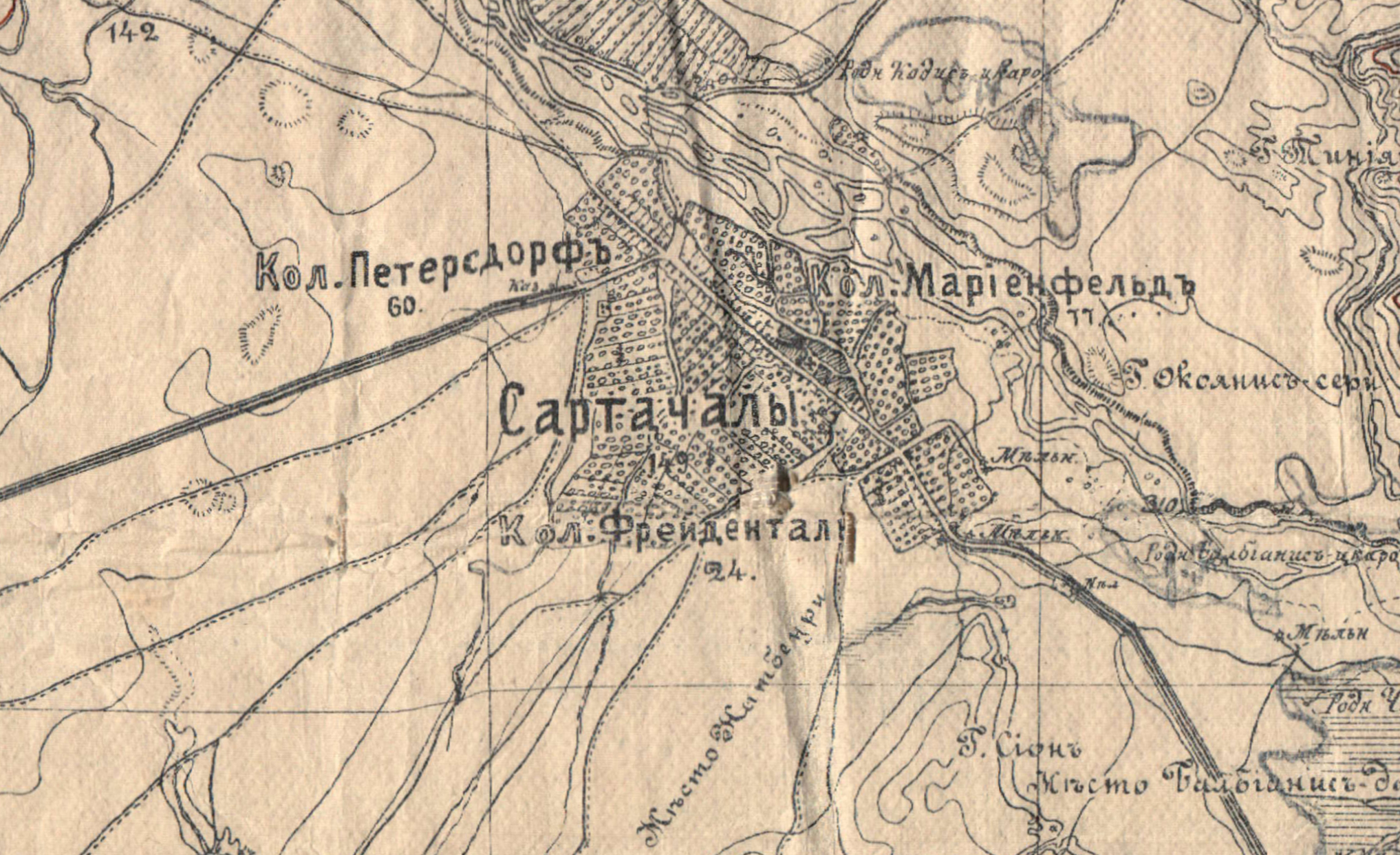 German colonies in Georgia (Sartichatla)